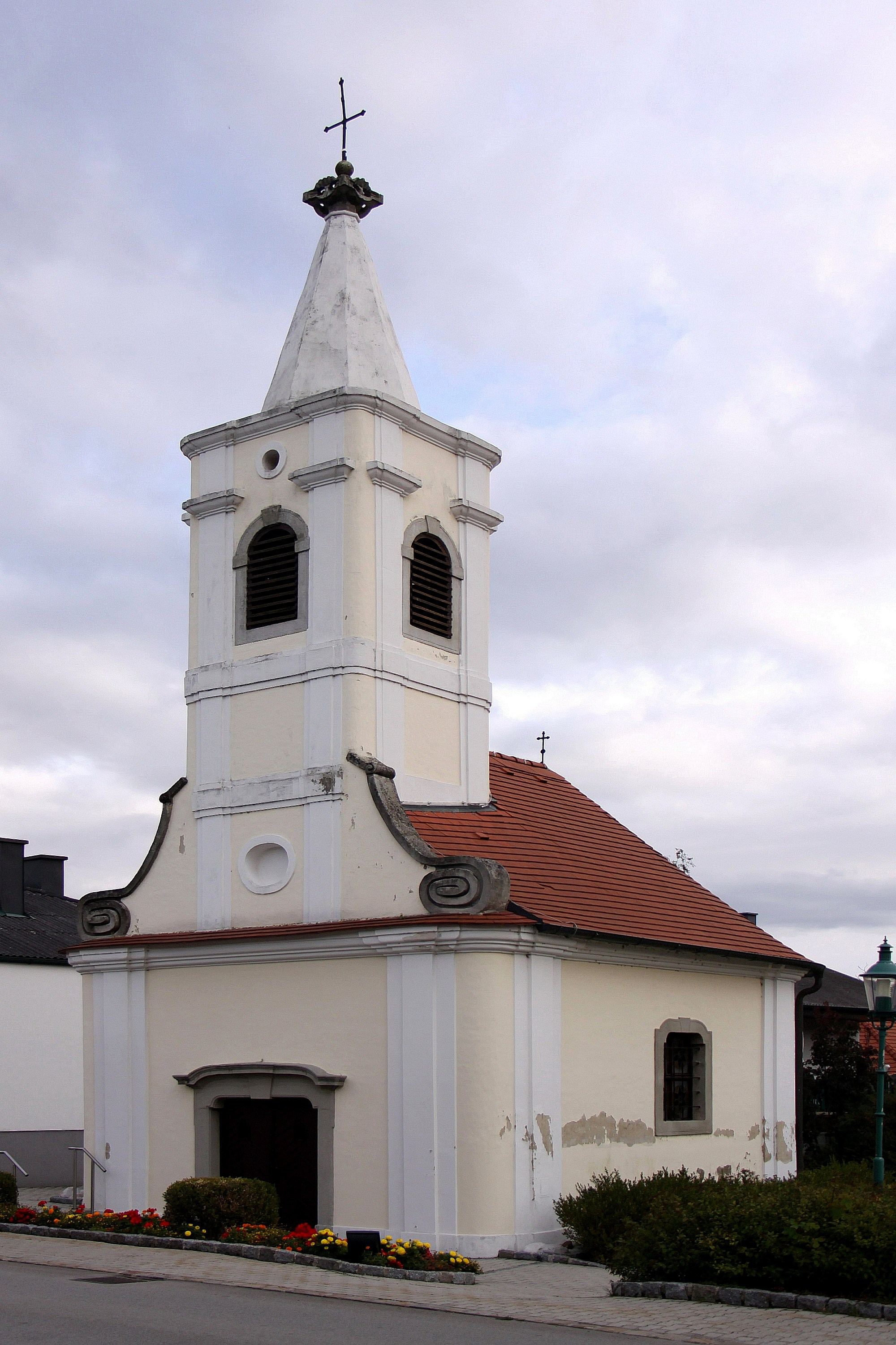 Chapel of Our Lady of Sorrows - Wulkaprodersdorf. Object location47° 47′ 46.6″ N, 16° 30′ 10.88″ E